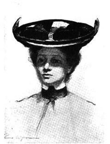 Illustration of "Miss Eleanor Hoyt" (1868-1942). From The Critic, June 1902 (vol. XL, no. 6), page 527.